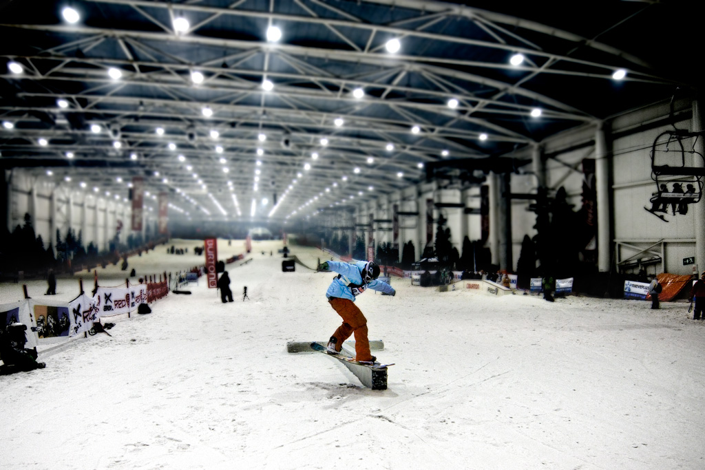 Picture of the Madrid Snowzone